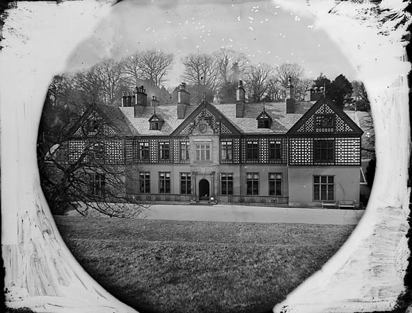 1 negative : glass, wet collodion, b&w ; 16.5 x 21.5 cm.